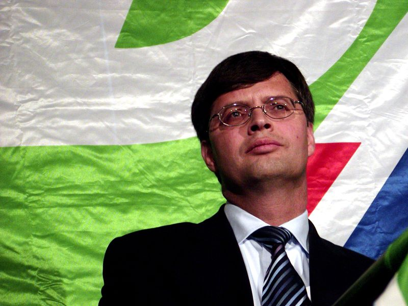 Jan Peter Balkenende, prime minister of The Netherlands